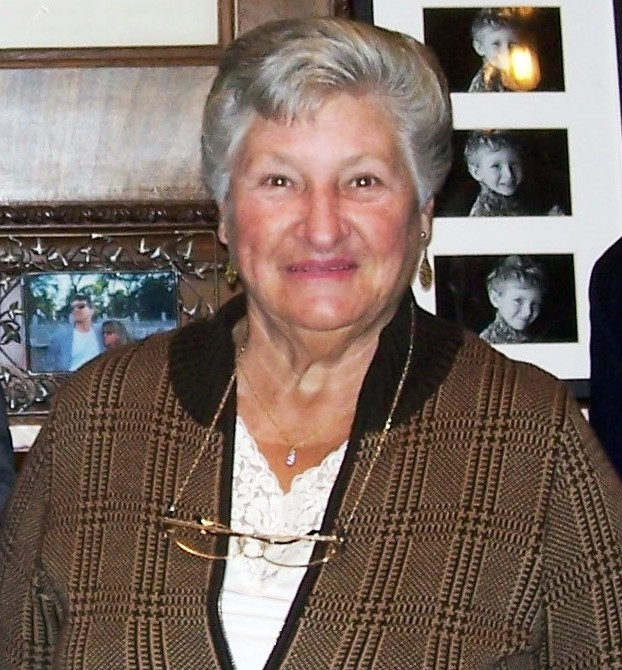 Delaware Governor Ruth Ann Minner visits the United States consulate in Amsterdam, the Netherlands